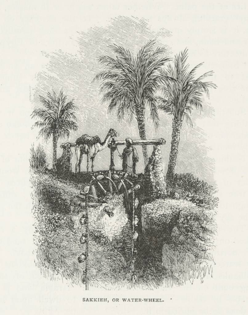 A chain of pots raises water from the river as a camel turns the horizontal wheel of the Sakkieh.